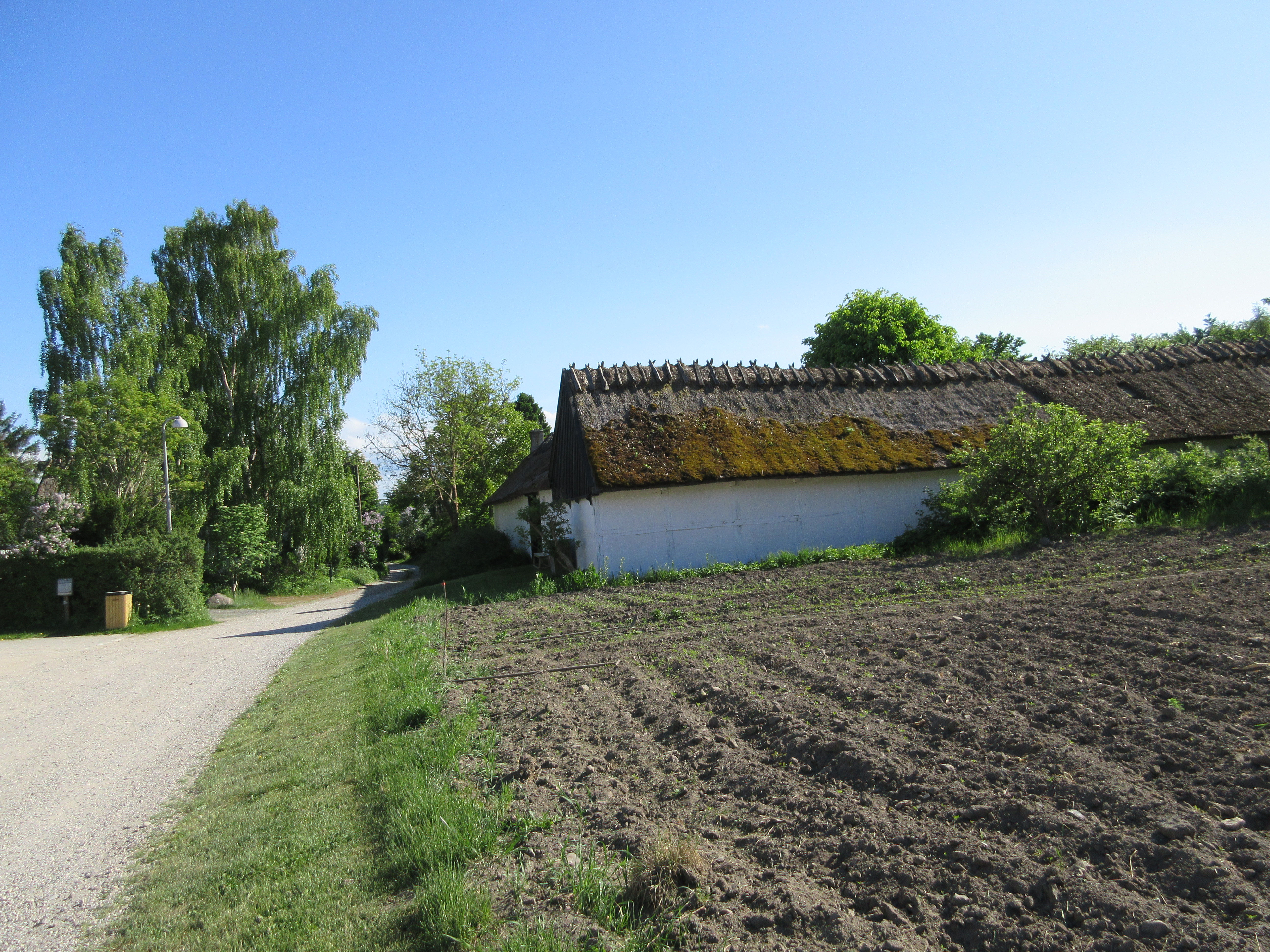 The listed building Tingstedgård at Landsbyen 6 in Hørsholm Kommune, Denmark